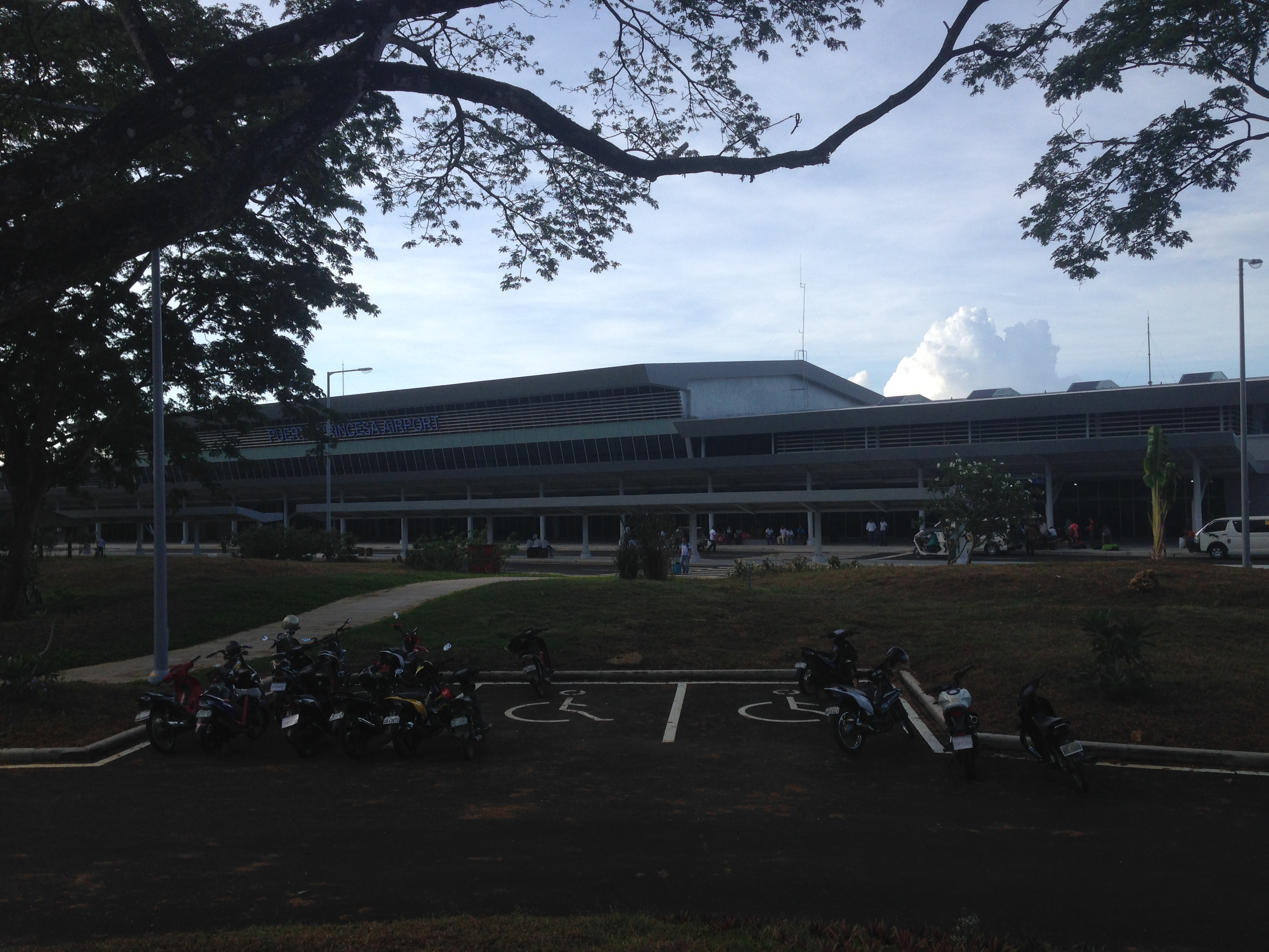 The new terminal, taken from the parking area.